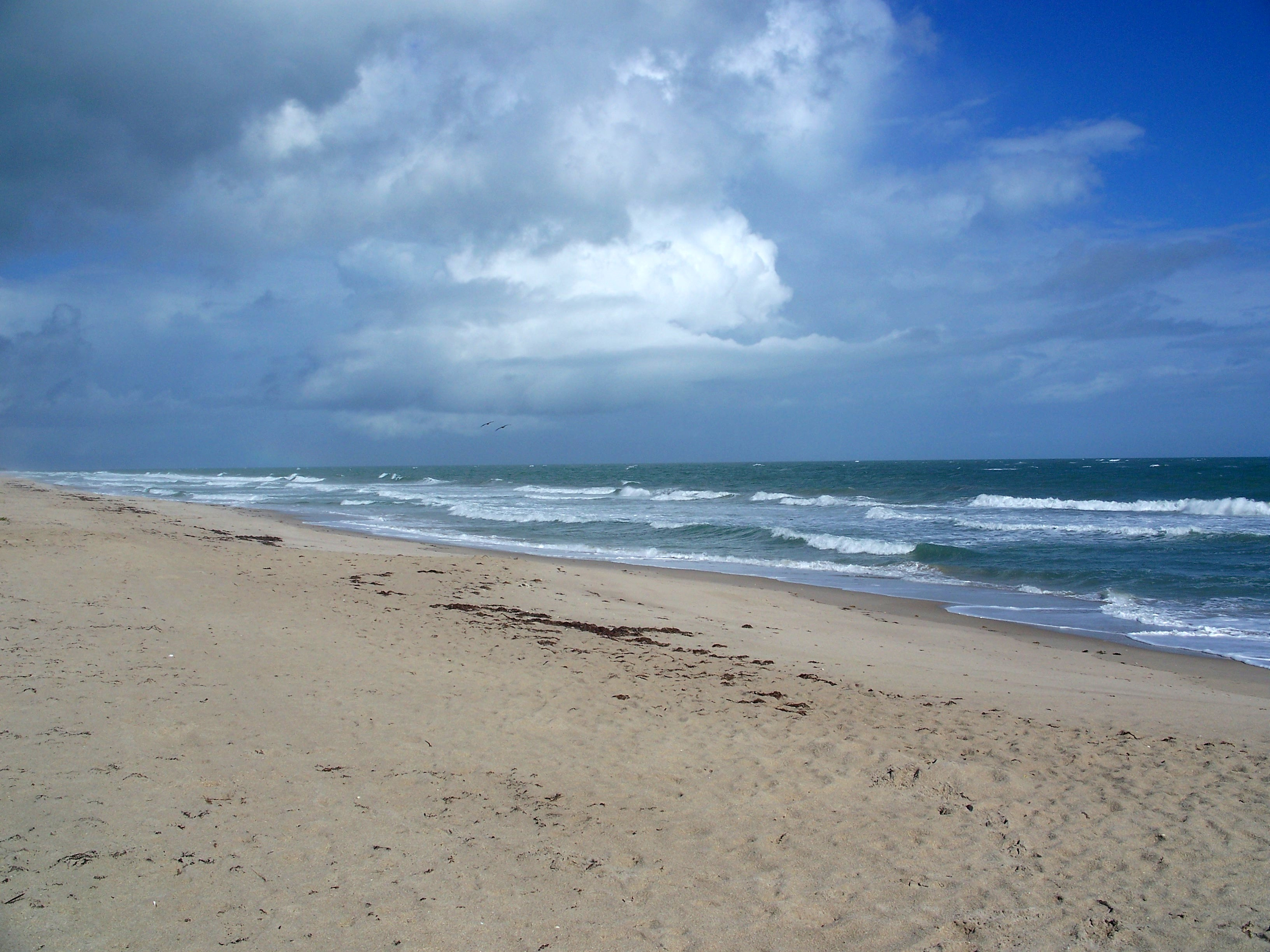 Avalon State Park: Beach